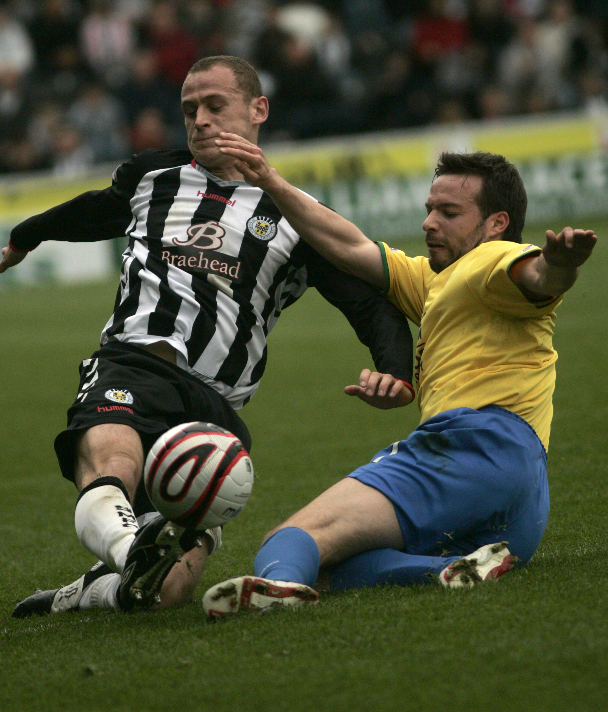 Tackle (St Mirren 0-1 Hamilton Academical May 2009, [1])